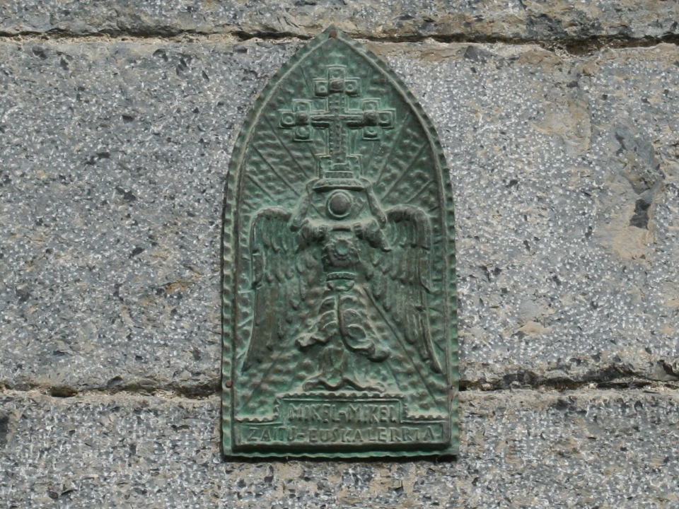 plaque above the entrance to Larrea, the Baleztena house in Leitza